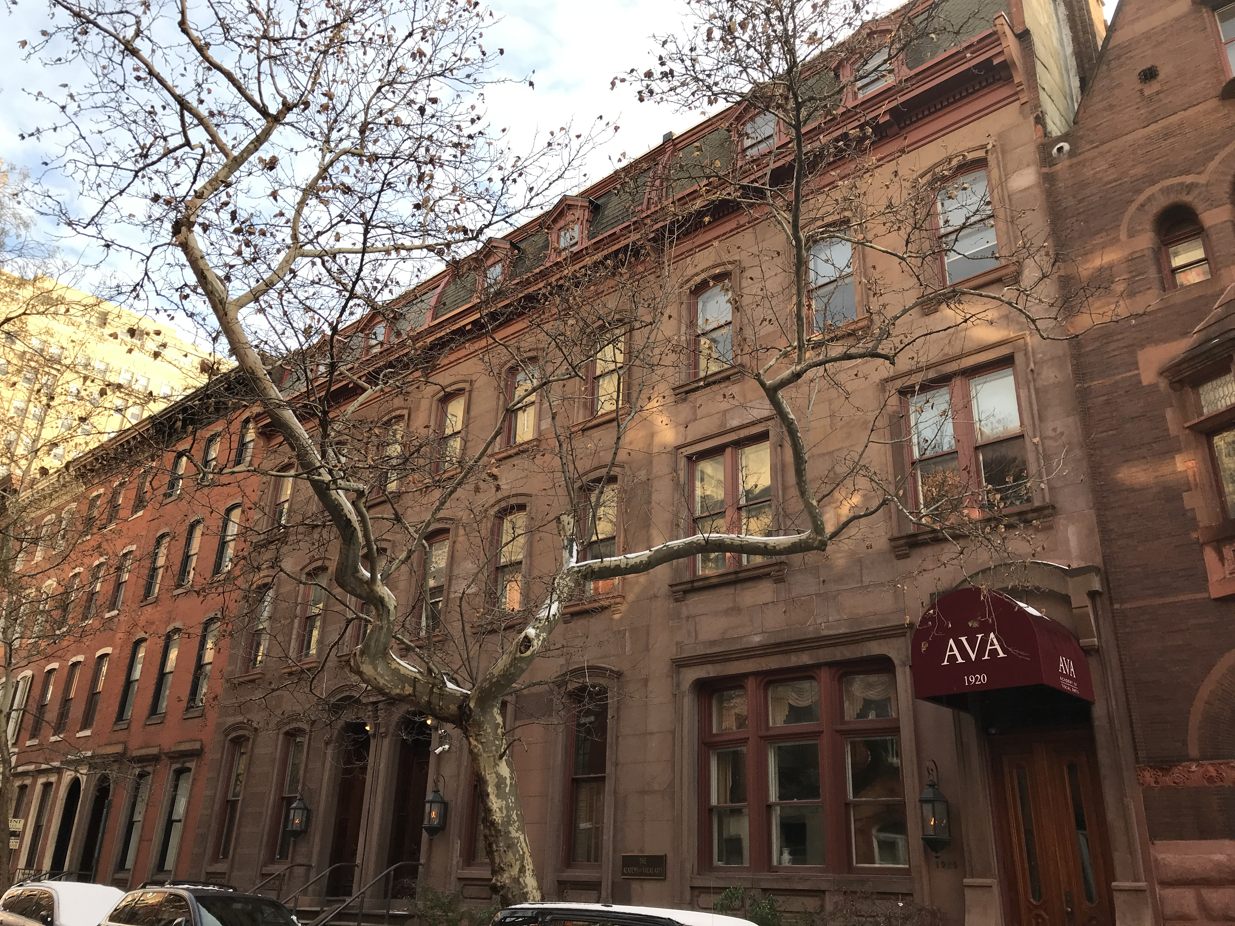 The Academy of Vocal Arts as seen from Spruce St. Part of the Rittenhouse Historic District.